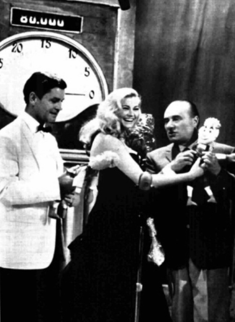 Anthony Steel, Anita Ekberg and Mario Riva in a 1958 episode of the Italian TV-show Il Musichiere